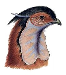 Tragopan wattles: * Fig. 1. Wattle of Western Tragopan (Tragopan melanocephalus)